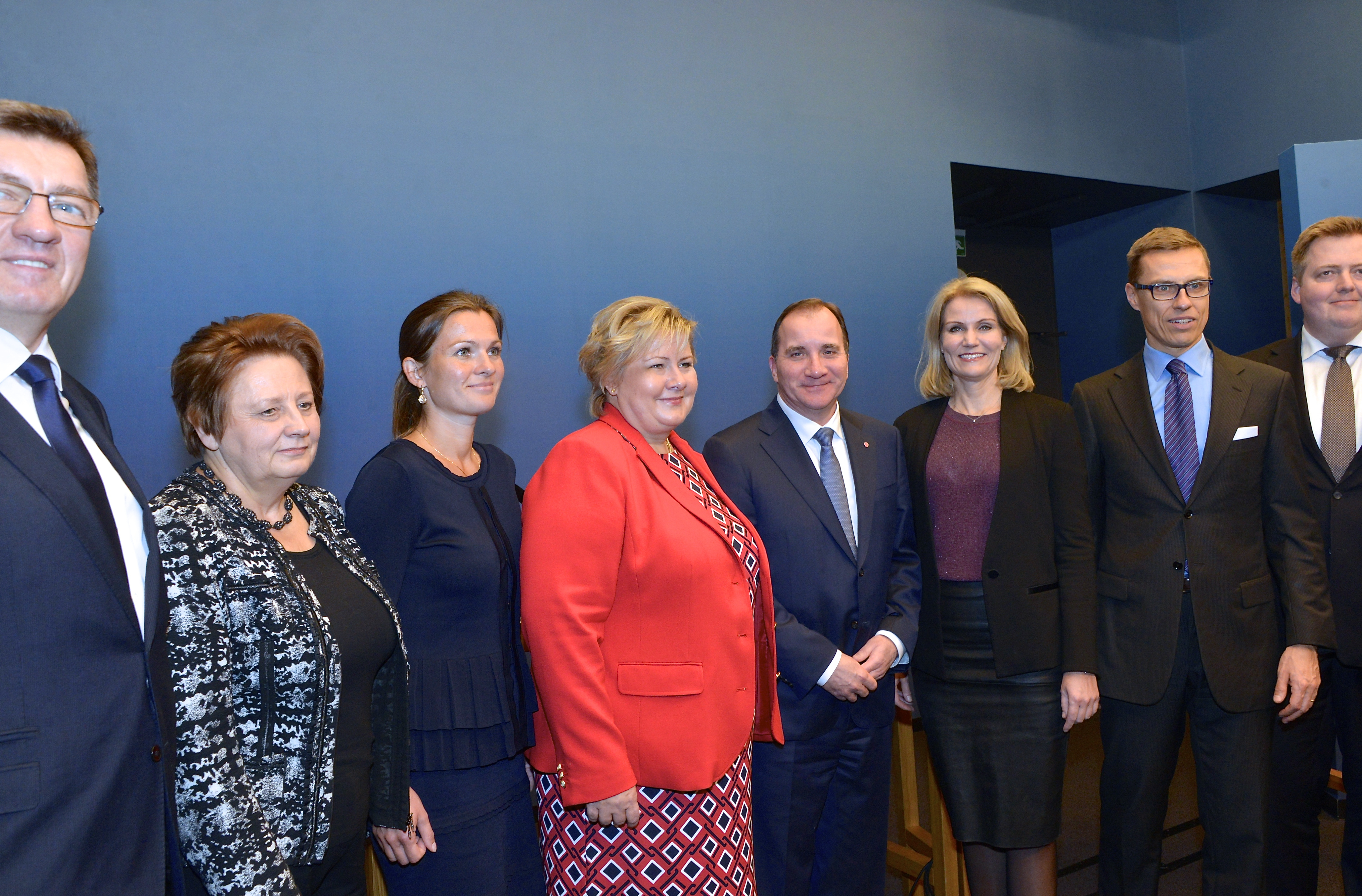 Press conference with the Nordic and Baltic prime ministers before the Nordic Council Session in Stockholm 2014. From left: Algirdas BUTKEVIČIUS, Lithuania, Laimdota Straujuma, Latvia, Minister of Foreign Trade and Entrepreneurship, Anne Sulling, Estonia, Erna Solberg, Norway, Stefan Löfven, Sweden, Helle Thorning-Schmidt, Denmark, Alexander Stubb, Finland, Sigmundur Davíð Gunnlaugsson, Iceland